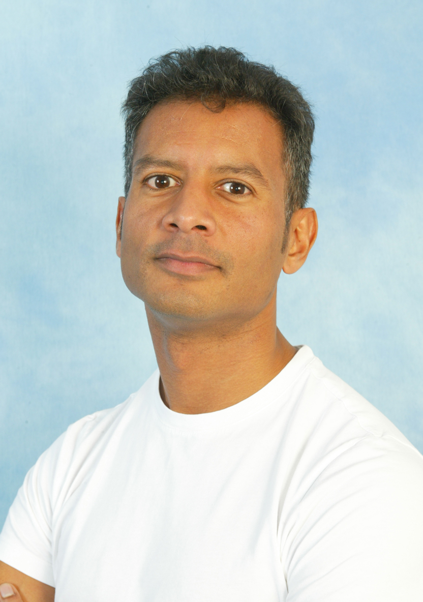 John Domingue, inventor of rdfs:domingue